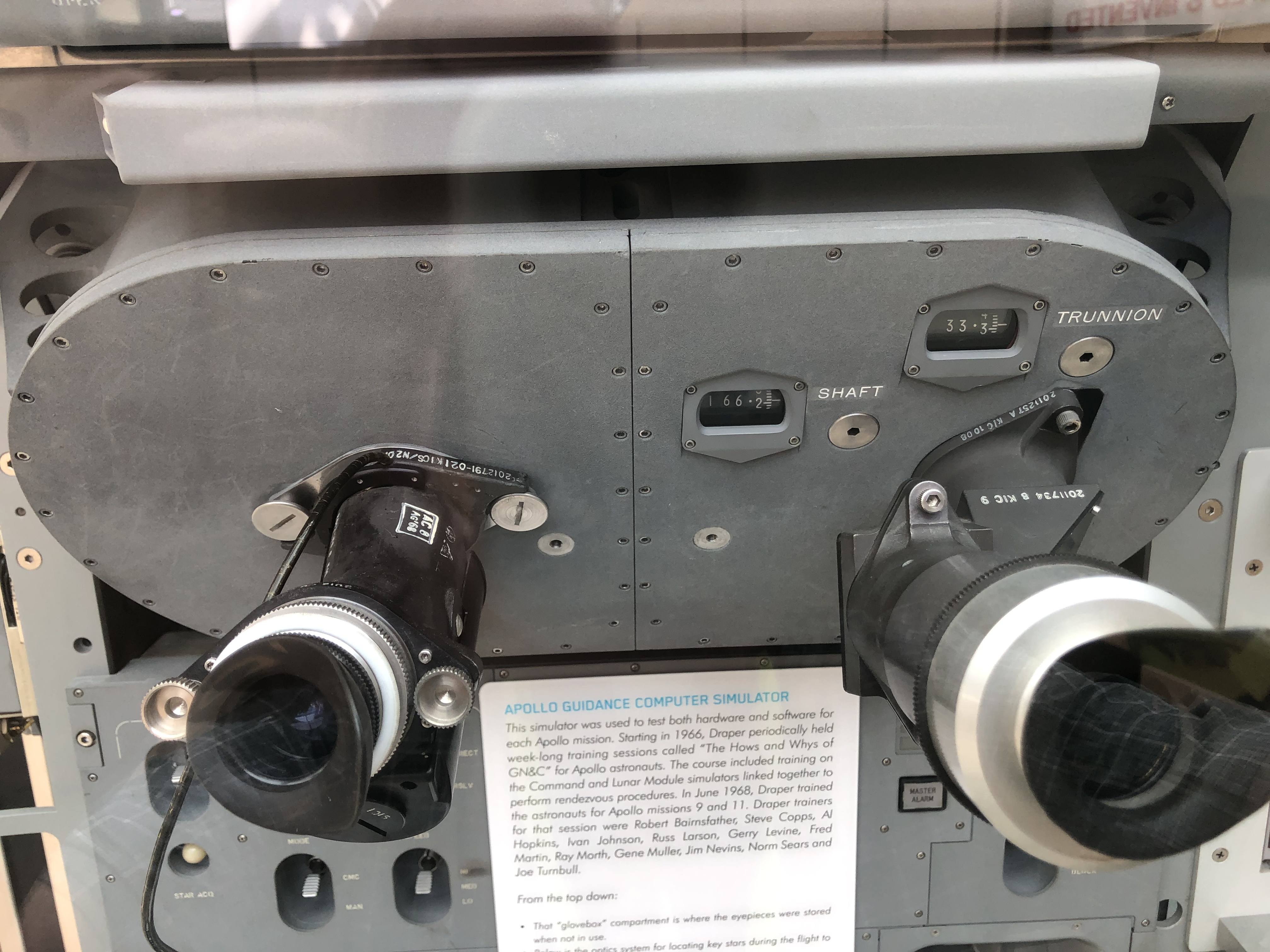 Apollo program related object on display at the Draper Labs 2019 "Hack the Moon" exhibit, held in Cambridge, Massachusetts, in honor of the 50th anniversary of the Apollo 11 moon landing.